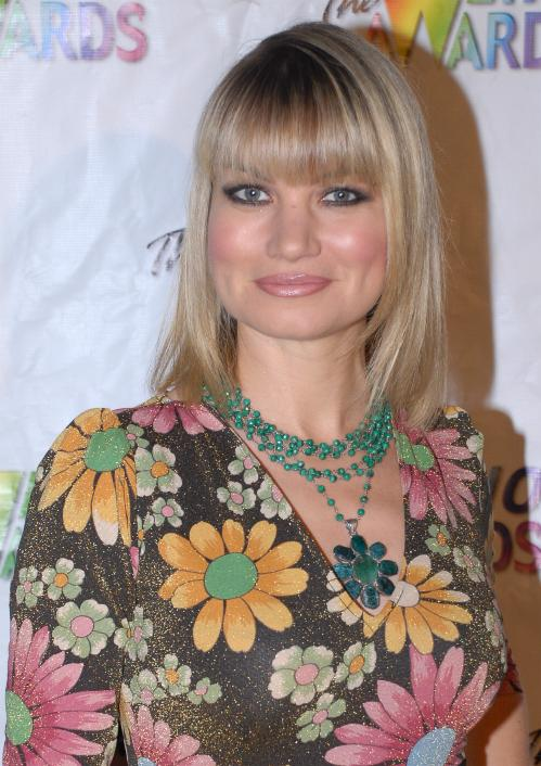 January 21, 2008 - 7th Annual WeHo Awards